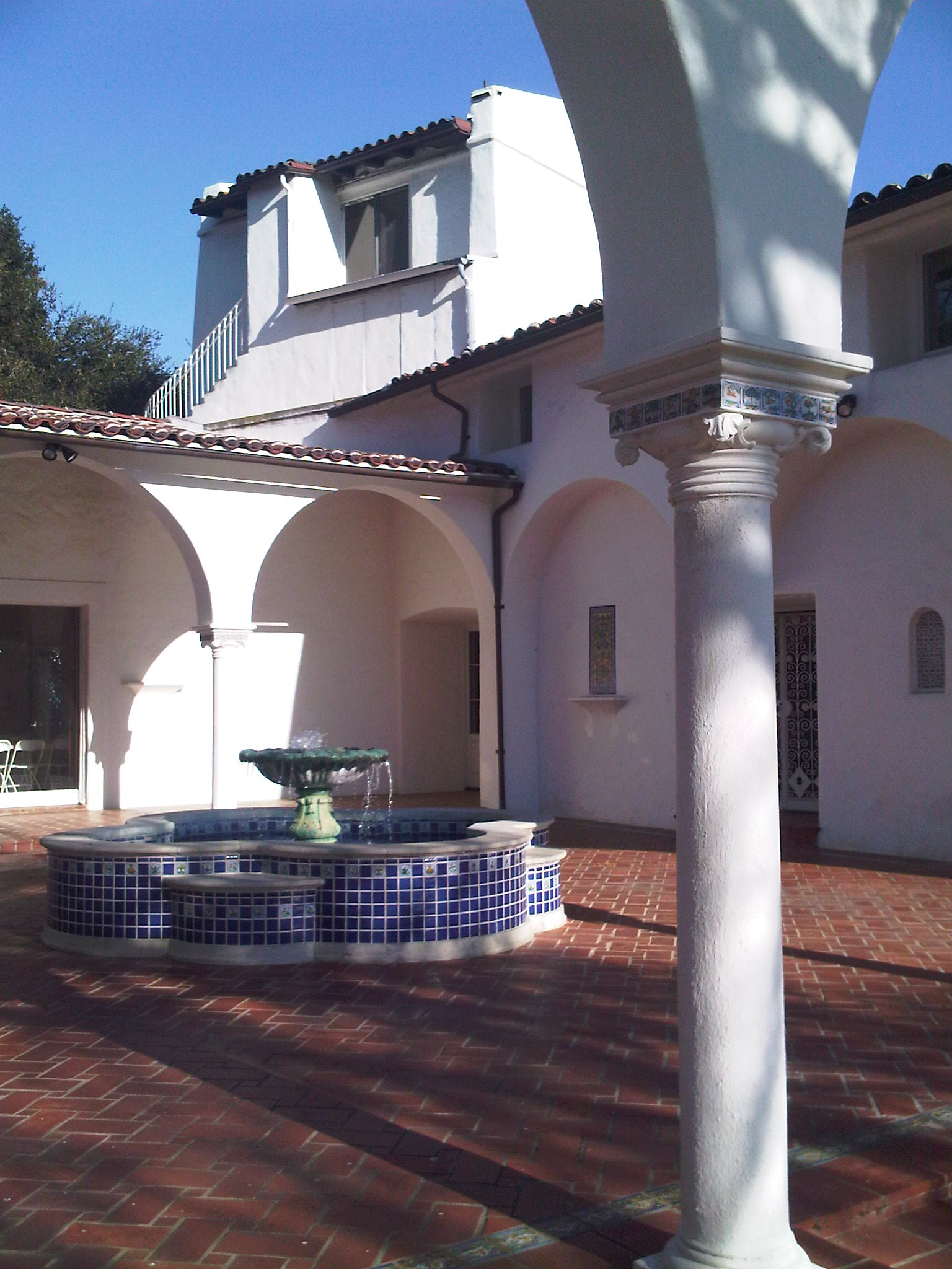 King Gillette Ranch, main residence courtyard, designed by Wallace Neff in the Spanish Colonial Revival architecture style in the 1920s. Now in the Santa Monica Mountains National Recreation Area, Santa Monica Mountains, Calabasas, California.